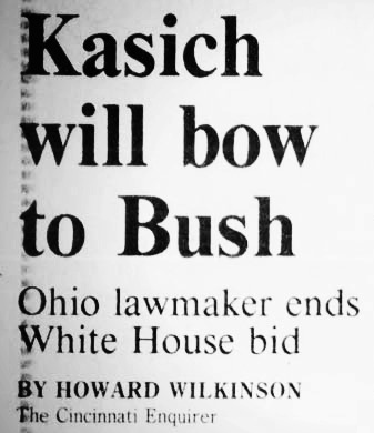 John Kasich presidential campaign, 2000